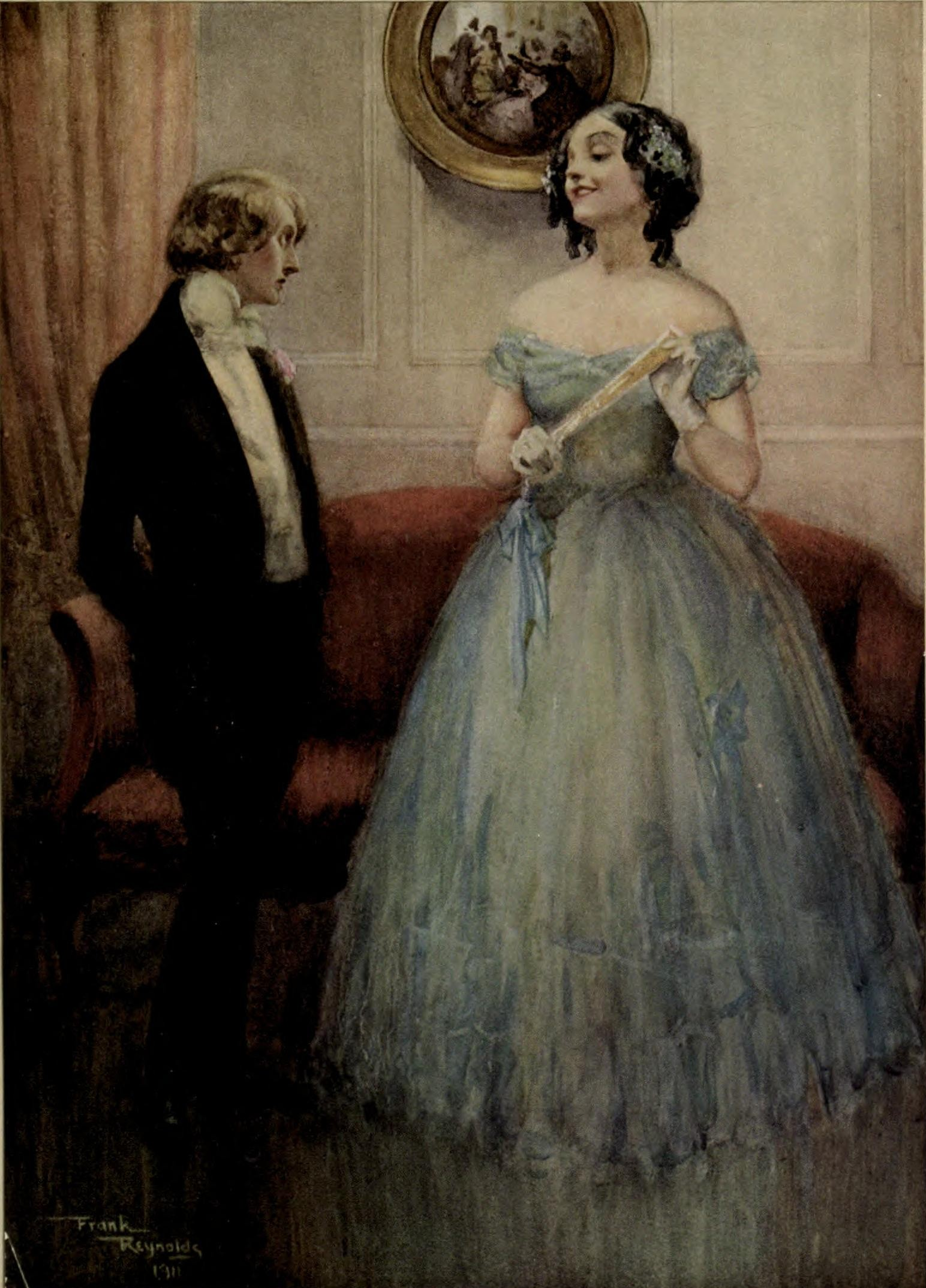 The eldest Miss Larkins and David, from Charles Dickens' David Copperfield.